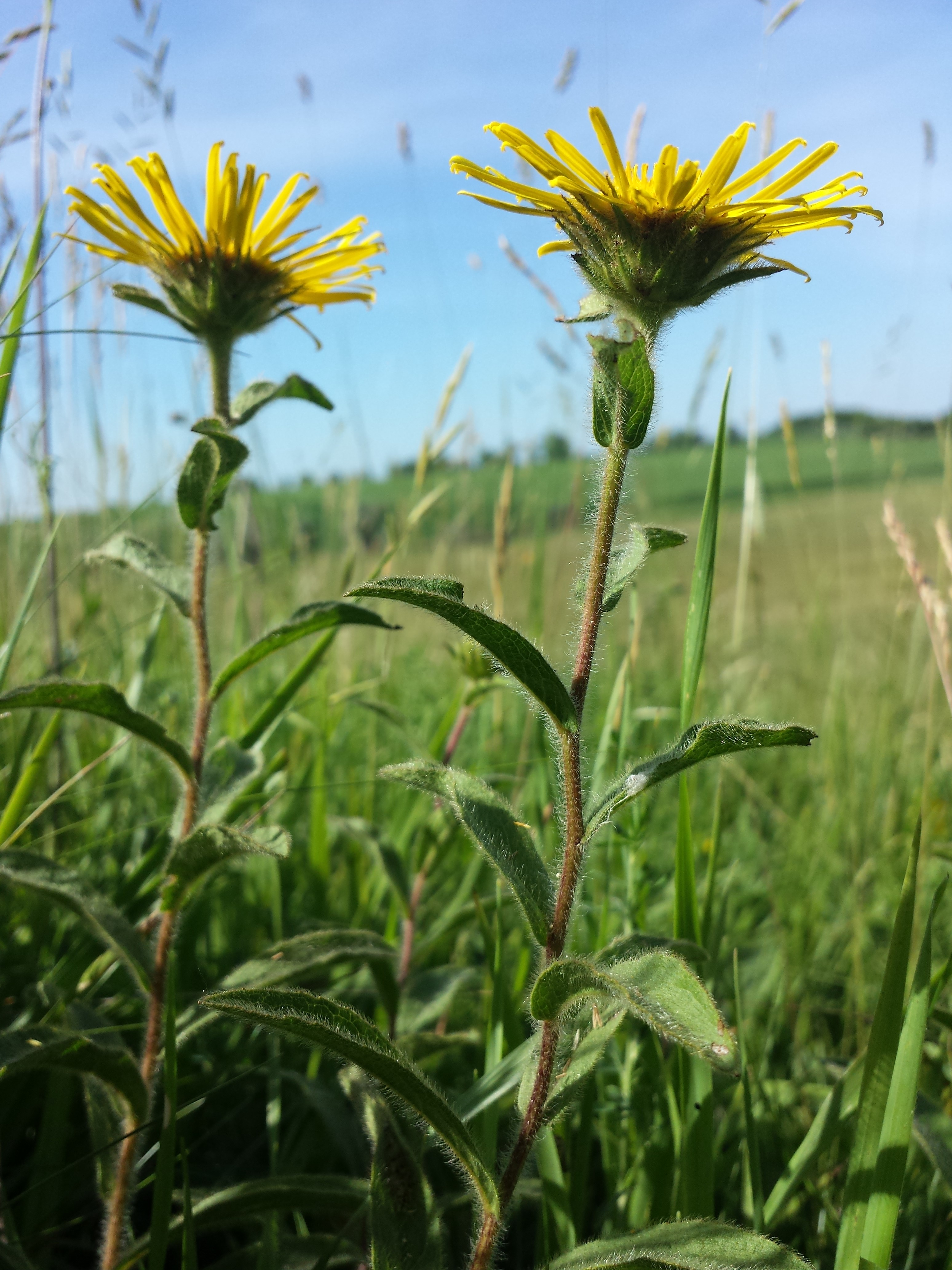 Habitus Taxonym: Inula hirta ss Fischer et al. EfÖLS 2008 ISBN 978-3-85474-187-9; det. Gergely Király 2015-06-06 Location: Loess hills next Belsőbáránd, Fejér County, Hungary - ca. 120 m a.s.l. Habitat: dry grassland on Loess